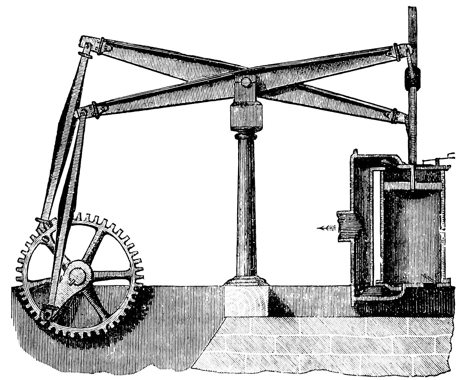 Iron blowing engine